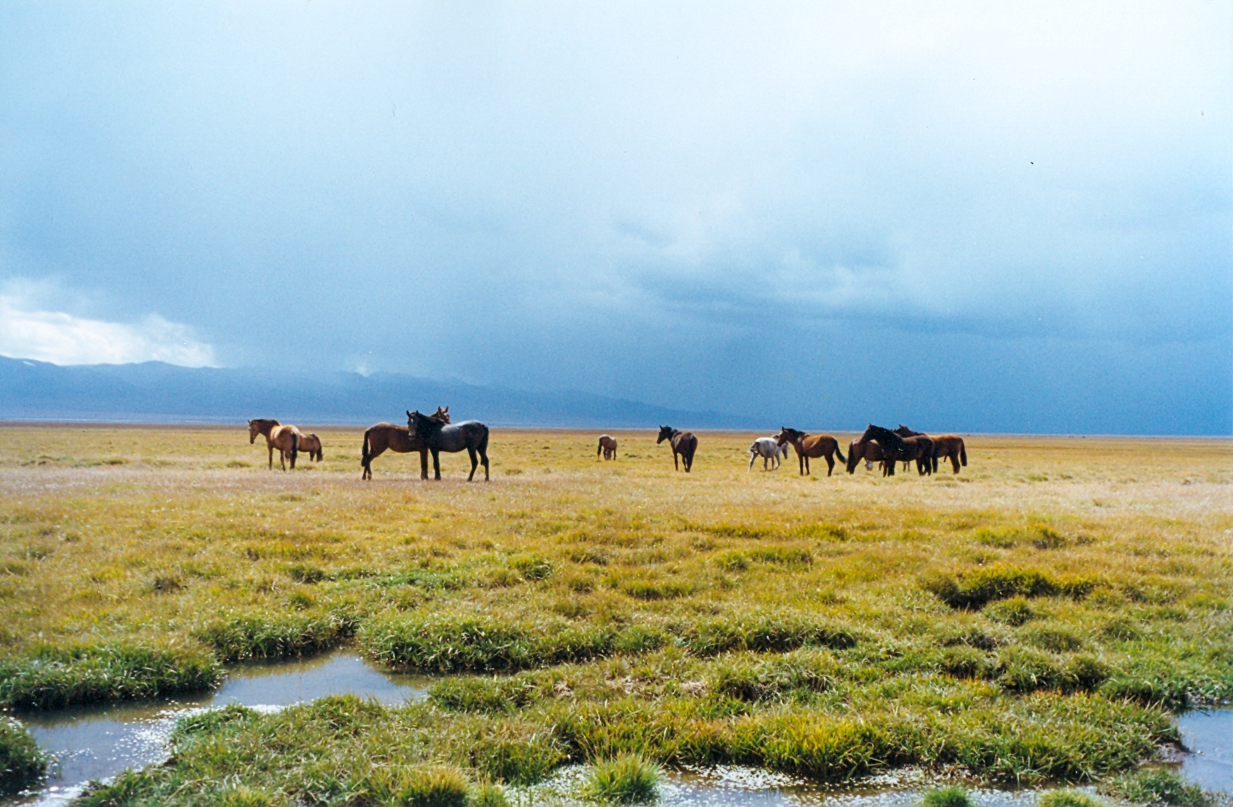 Horses grazing near Sonköl, Kyrgyzstan.